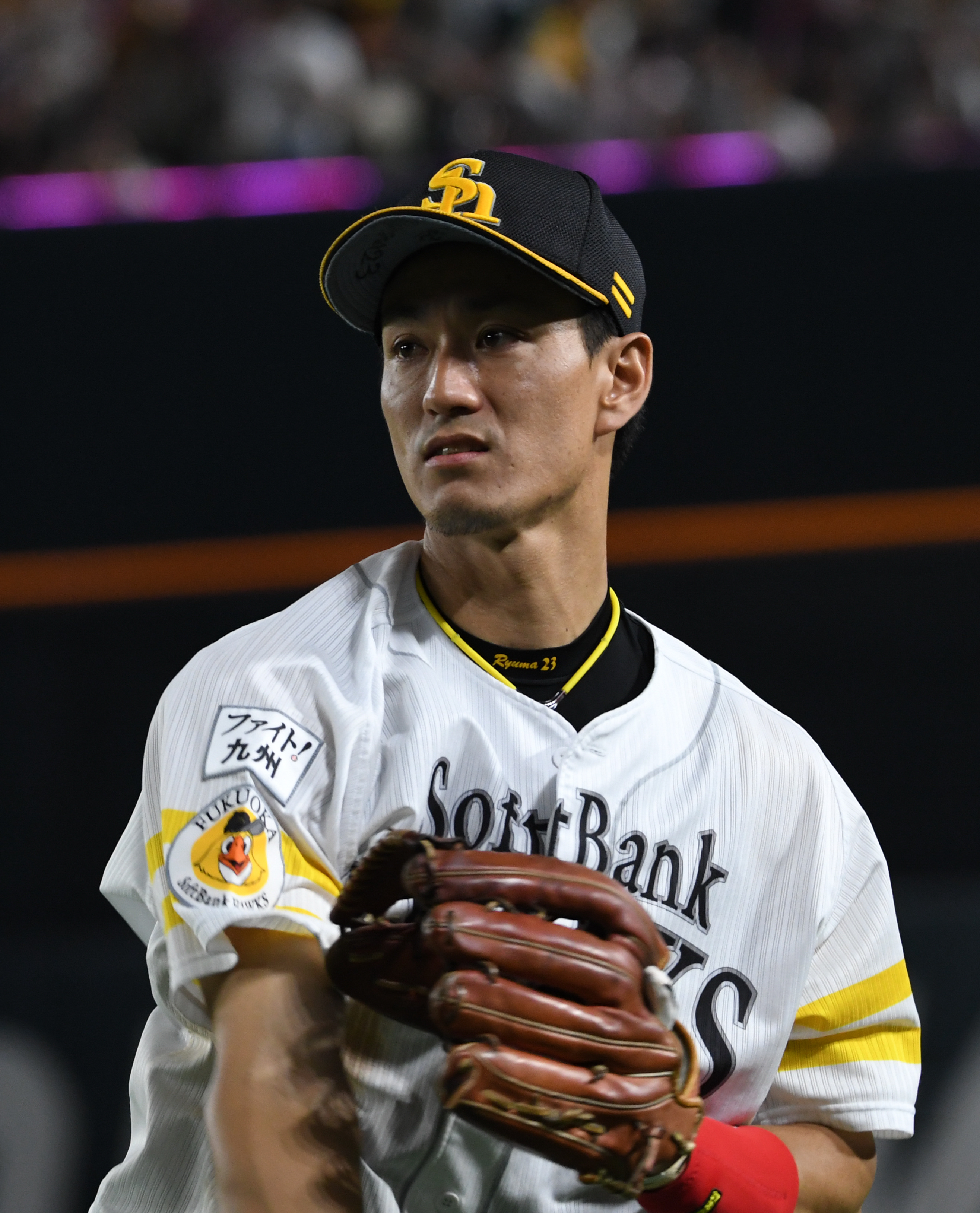 Ryuma Kidokoro, outfielder of the Fukuoka SoftBank Hawks, at Fukuoka Dome